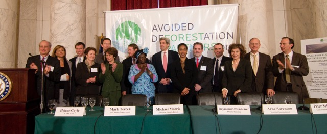 Avoided Deforestation Partners briefs the Senate on the effects of illegal deforestation